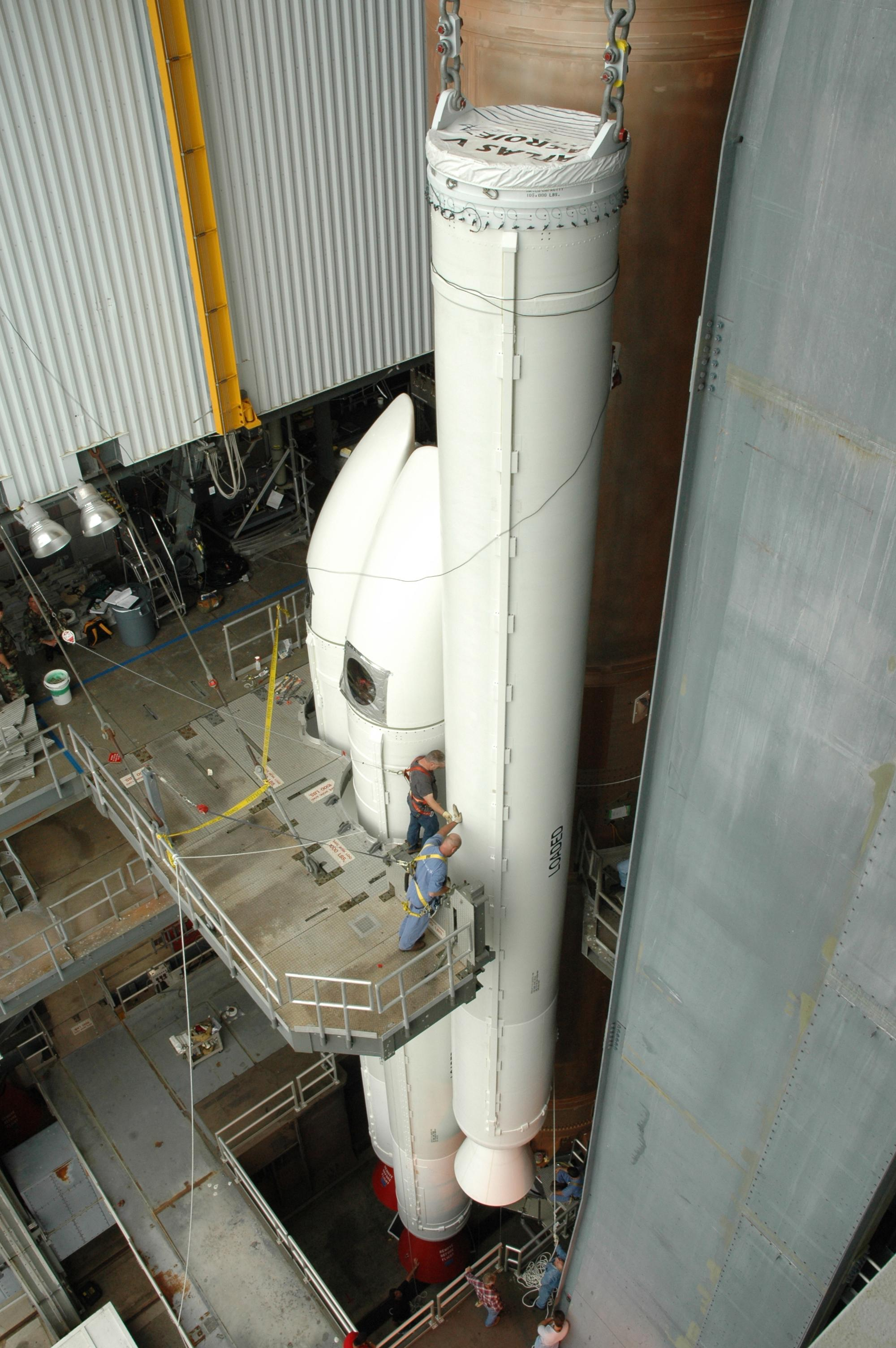 KENNEDY SPACE CENTER, FLA. – In the Vertical Integration Facility on Launch Complex 41 at Cape Canaveral Air Force Station in Florida, workers maneuver the fifth and final solid rocket booster into place for mating to the Lockheed Martin Atlas V rocket. Two of the other four rockets are seen at left. The Atlas V is the launch vehicle for the Pluto-bound New Horizons spacecraft that will make the first reconnaissance of Pluto and its moon, Charon - a "double planet" and the last planet in our solar system to be visited by spacecraft. As it approaches Pluto, the spacecraft will look for ultraviolet emission from Pluto's atmosphere and make the best global maps of Pluto and Charon in green, blue, red and a special wavelength that is sensitive to methane frost on the surface. It will also take spectral maps in the near infrared, telling the science team about Pluto's and Charon’s surface compositions and locations and temperatures of these materials. When the spacecraft is closest to Pluto or its moon, it will take close-up pictures in both visible and near-infrared wavelengths. The mission will then visit one or more objects in the Kuiper Belt region beyond Neptune. New Horizons is scheduled to launch in January 2006, swing past Jupiter for a gravity boost and scientific studies in February or March 2007, and reach Pluto and Charon in July 2015.